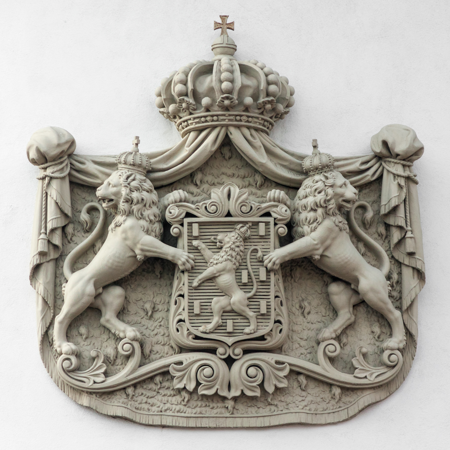 Coat of Arms at the entrance of the Stadtschloss Wiesbaden